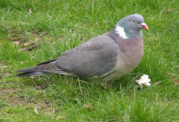 Wood Pigeon, Columba palumbus